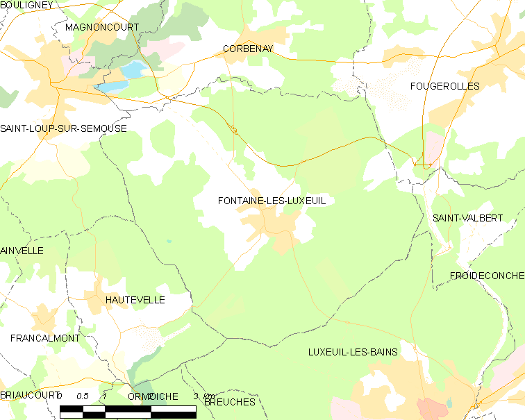 Map of French municipality